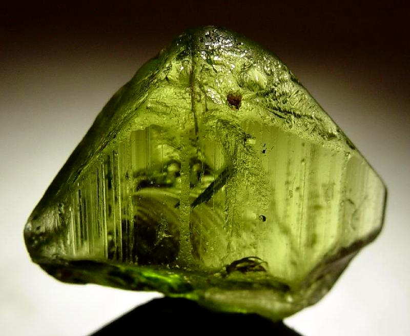 Forsterite, Olivine Locality: St John's Island (Zagbargad; Zabargad; Zebirget; Seberged; Topazios), Red Sea, Egypt (Locality at ) Size: thumbnail, 2.4 x 2 x .6 cm Forsterite (Peridot) This is a fabulous Peridot crystal from the famous locality for gem and carving grade peridot of ANCIENT times (i.e. as far back as biblical times!). This material is EXTREMELY hard to come by on the market and is in both color and form quite distinct from the much more common Pakistani material mined in the late 1990's. Additionally, the clarity is remarkable for the species; and it allows you to fully appreciate the lovely green color. The luster is superb, and the crystal is nicely terminated. There is a small conchoidal fracture on the backside of the termination (not facing the viewer and not visible in any way from the front) and a larger conchoidal fracture at the center of the lower-rear face (again invisible from front); but otherwise the crystal is complete on the display face and around the sides. FRONT AND BACK PHOTOS ARE SHOWN. It is of remarkable size and is one of the two best I have seen for sale in recent years. It was purchased in the 1980s from dealer Herb Obodda who had obtained it in an old collection (the current collector thinks it was ex. Swoboda but I have no proof of it). BOTTOM LINE, THIS IS MAJOR! 2.4 x 2 x .6 cm